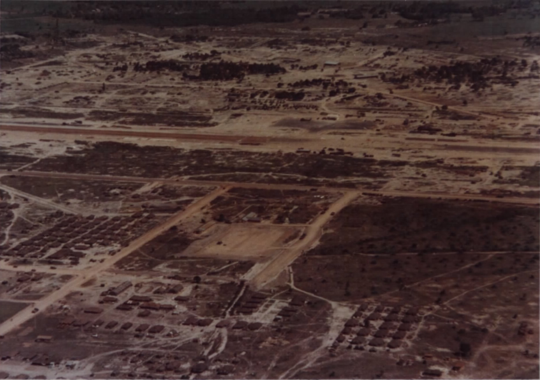 Aerial view of Tay Ninh, showing the cantonment of the 196th Infantry Brigade in the foreground and the runway and cantonment for the Philippine Civil Action Group in the background.